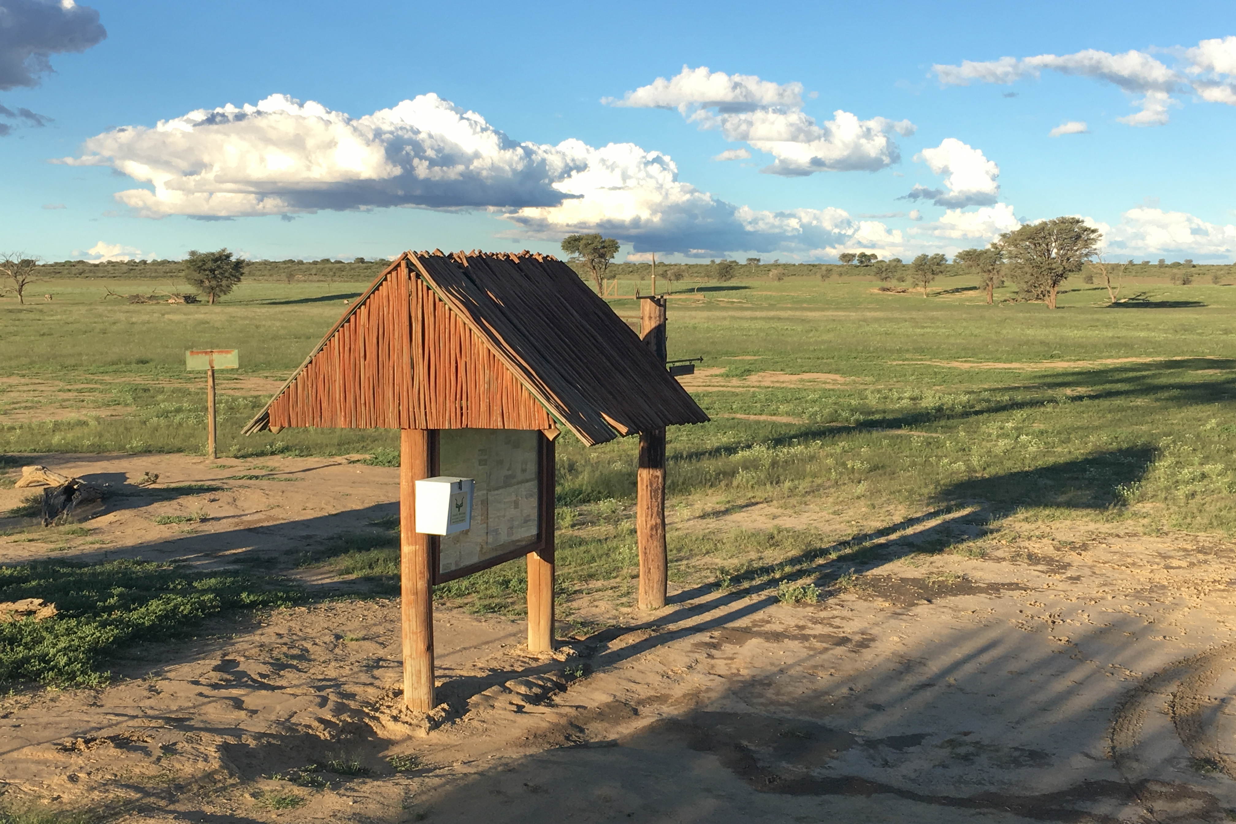 Union’s End (Namibia / South Africa / Botswana border, 2018)